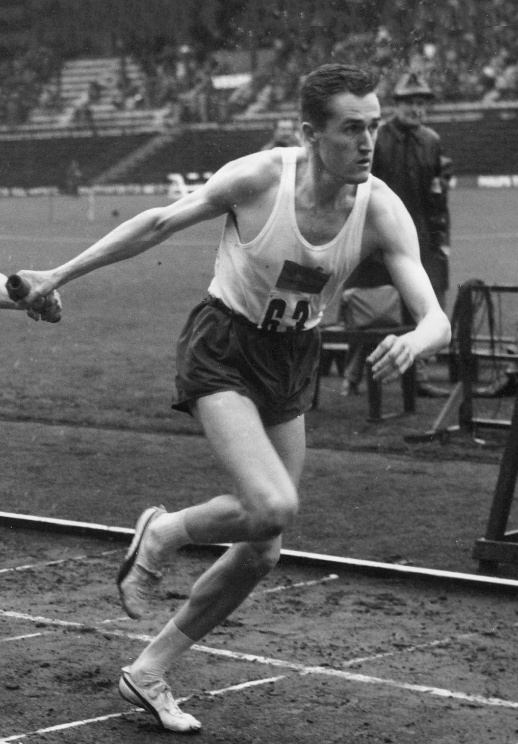 Bengt-Göran Fernström at the Sweden-East Germany meet in 1962